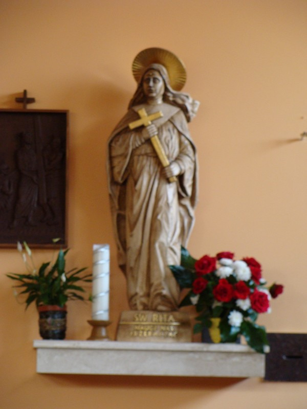 Śrem, Church of the Holy Heart of Jesus, figure of Saint Rita in the Chapel of Perpetual Adoration.